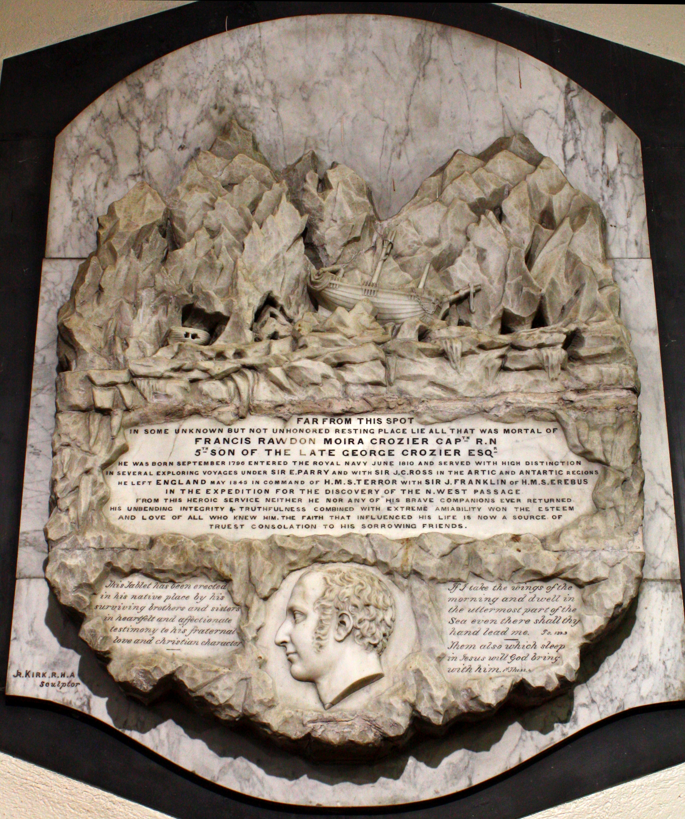 Francis Crozier memorial inside Seapatrick Church, Banbridge, County Down, Ireland